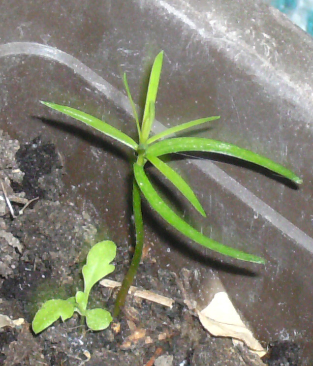 Taxus baccata seedling a few weeks old